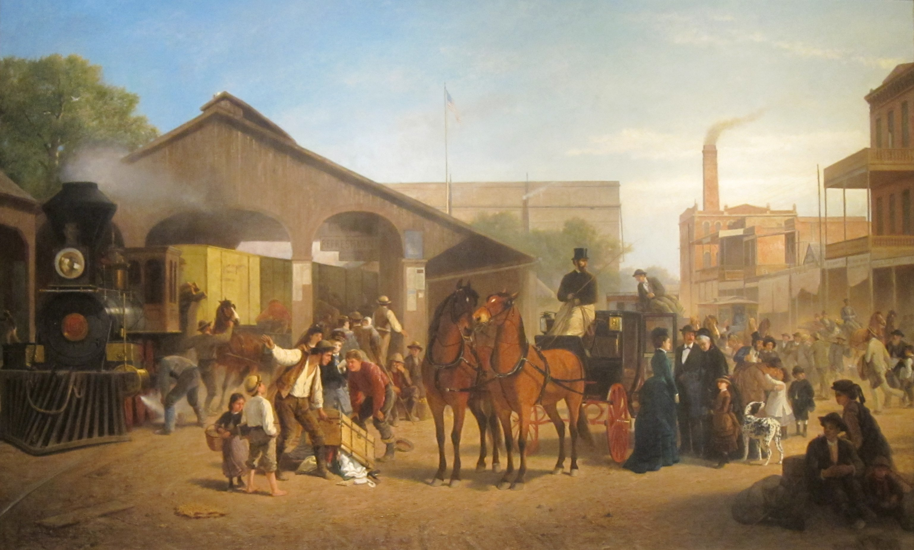 Railroad station of Sacramento, California